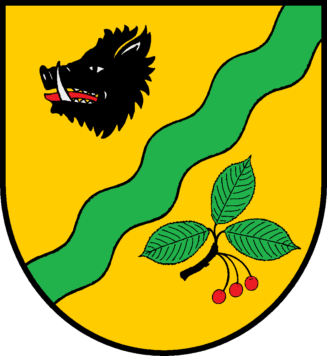 Coat of arms of the municipality Kabelhorst in Schleswig-Holstein, Germany.